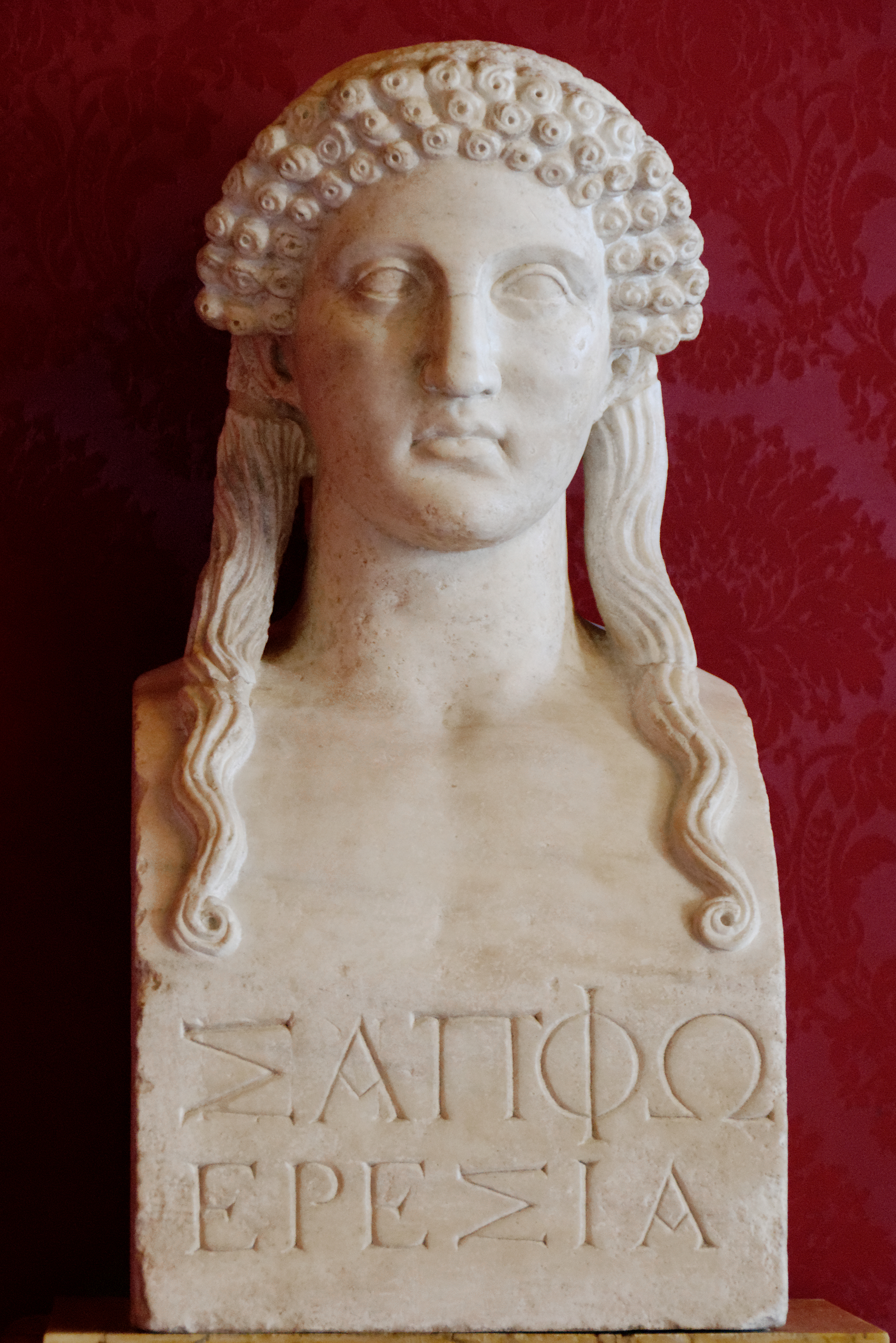 Hermaic pillar with a female portrait, so-called “Sappho”; inscription "Sappho Eresia" ie. Sappho from Eresos. Roman copy of a Greek Classical original.